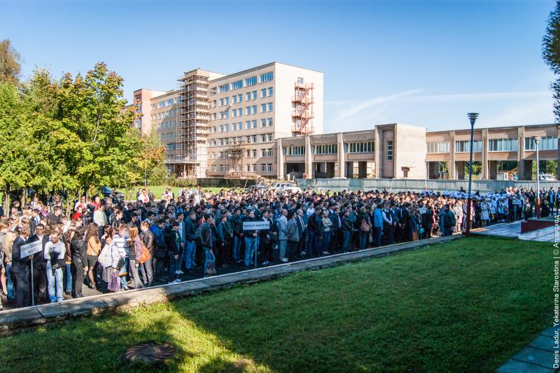 Khai Giảng